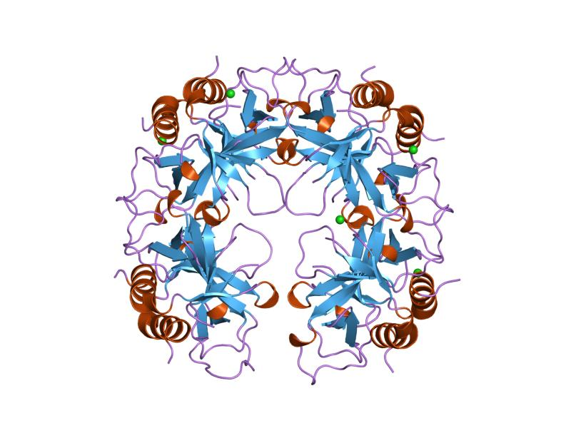 Cartoon representation of the molecular structure of protein registered with 2vub code.